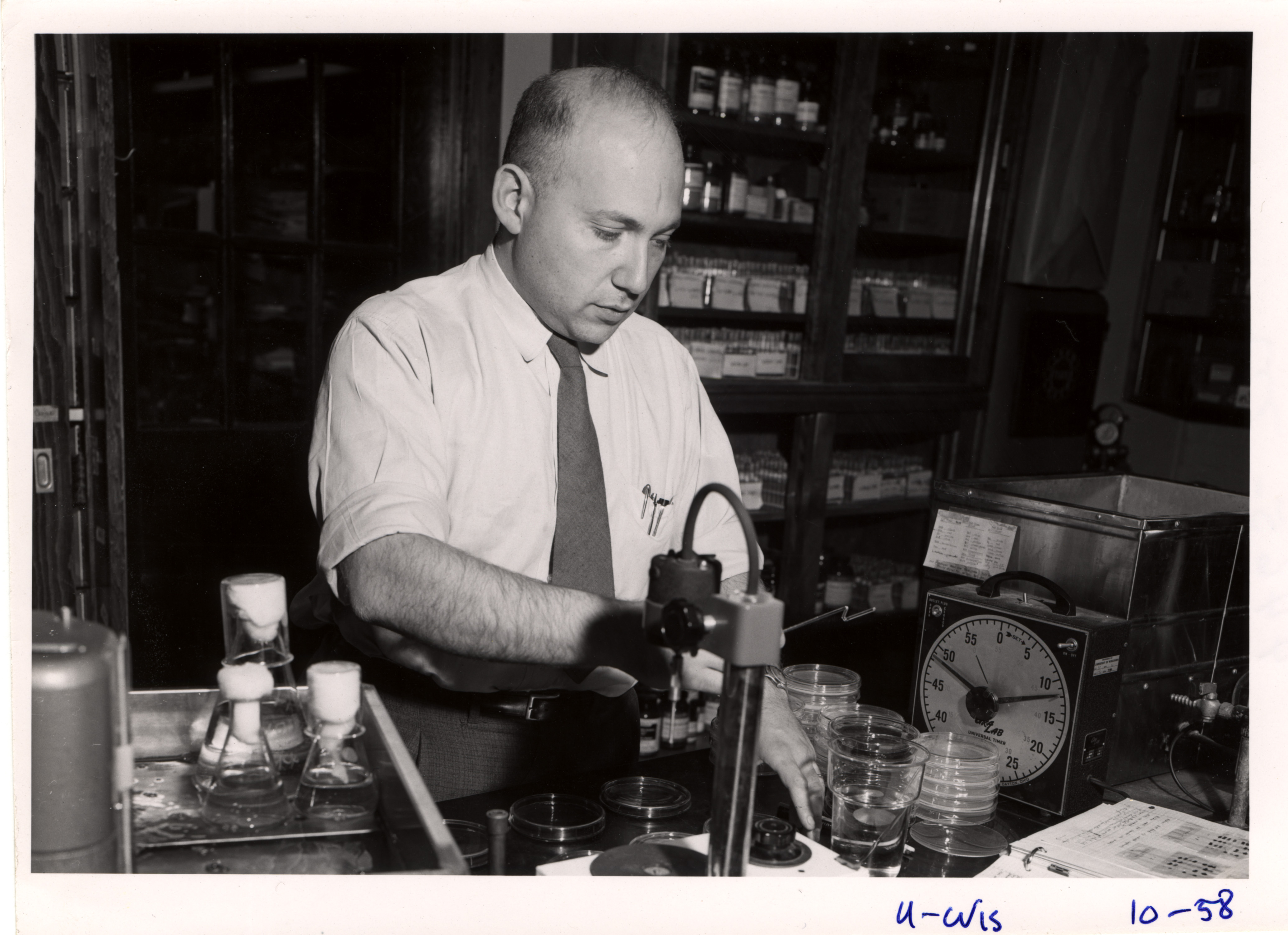 Joshua Lederberg at work in a laboratory at the University of Wisconsin